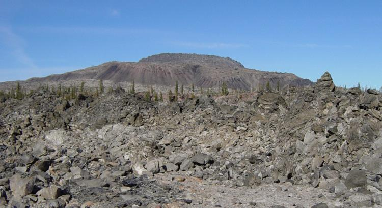 Glass Mountain, Lava Beds National Monument, California, USA